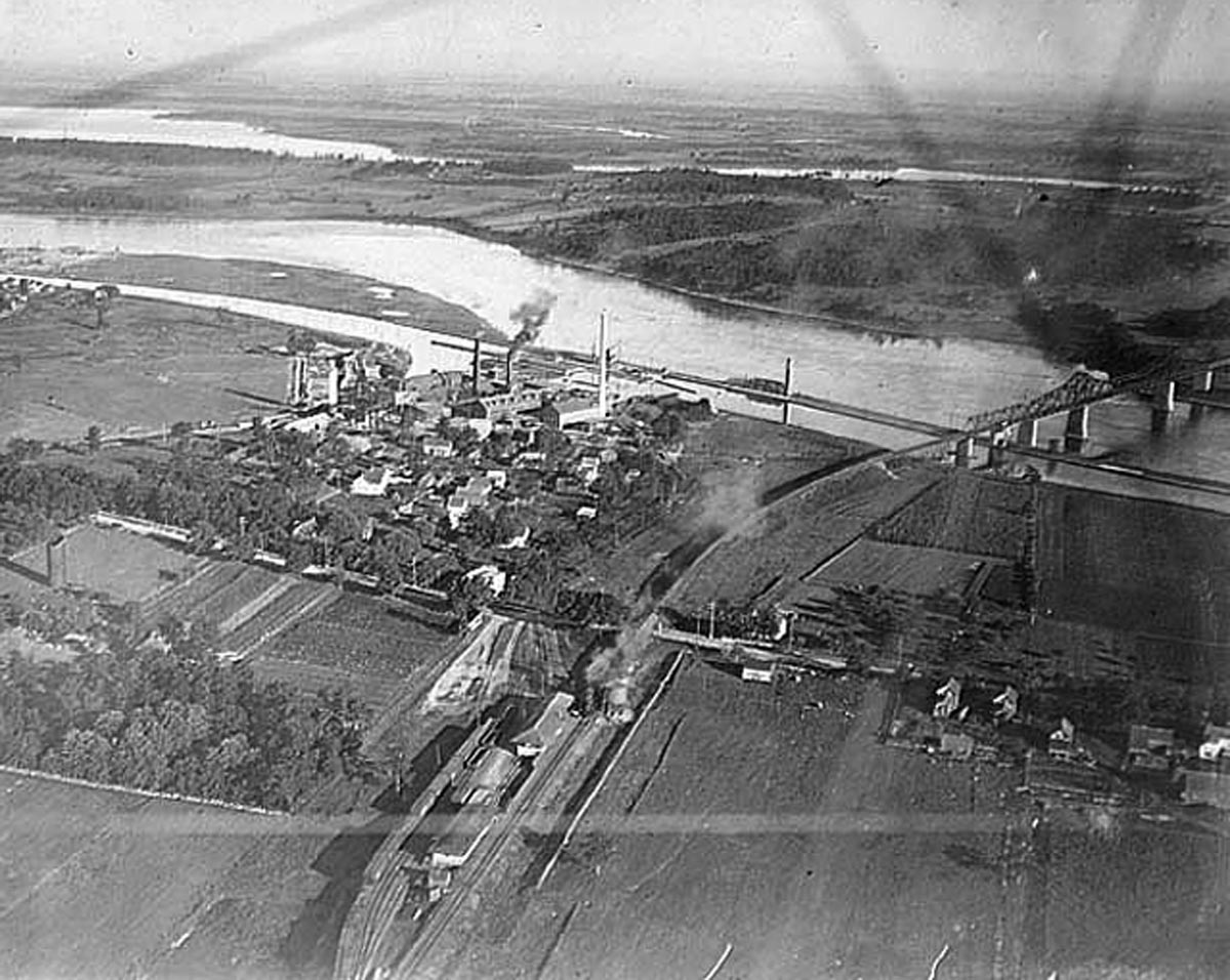 Aerial View of Lock 18 area in 1920. Original caption: "SHCC016a: Aerial View of Lock 18 area in 1920. The Howard Smith Paper Co. and Lock 18 are centered in this 1920 aerial view. The NY Central Bridge over the canal and St. Lawrence River is to the right."